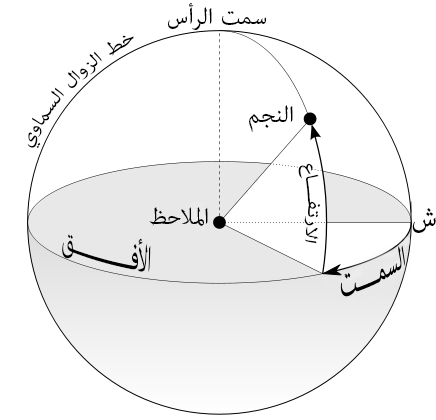 Azimut and altitude.